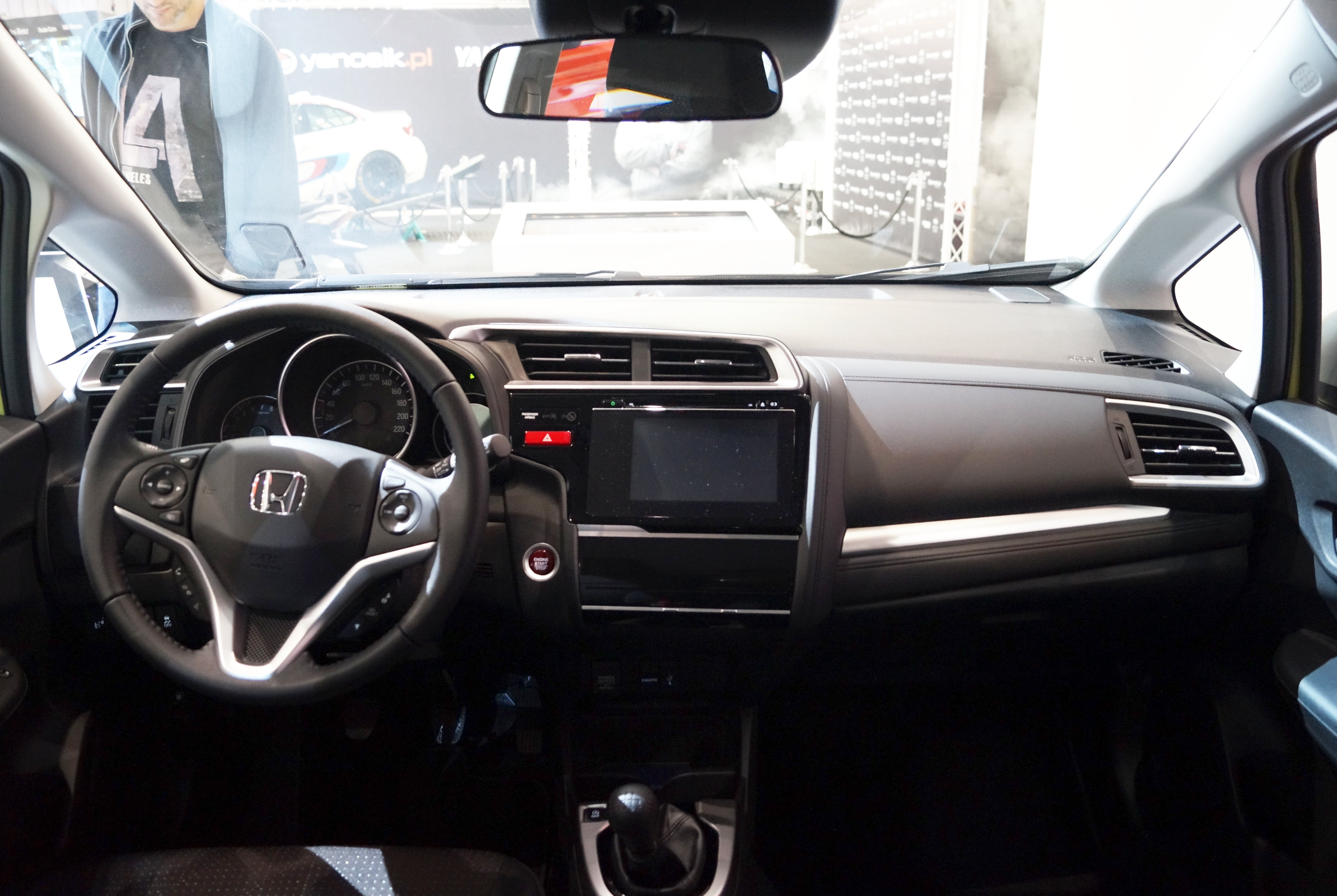 The making of this document was supported by Wikimedia Polska Association, within Wikigrant no. WG 2016-10. English | polski | +/− Wnętrze Hondy Jazz na Motor Show Poznań 2016